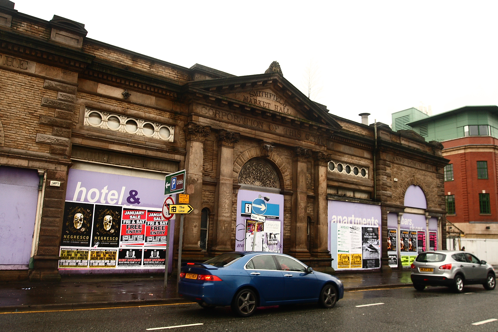 Smithfield Market Hall